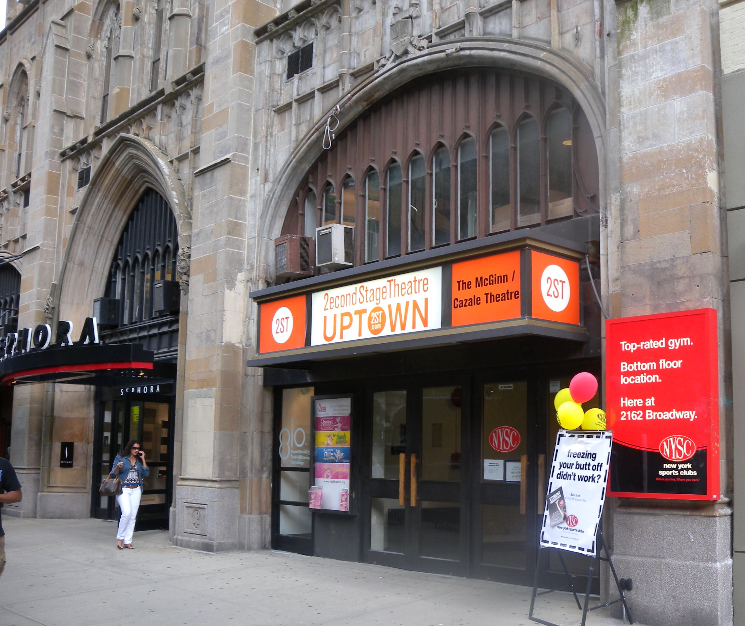 Looking northeast from Broadway and 76th at Second Stage Uptown.